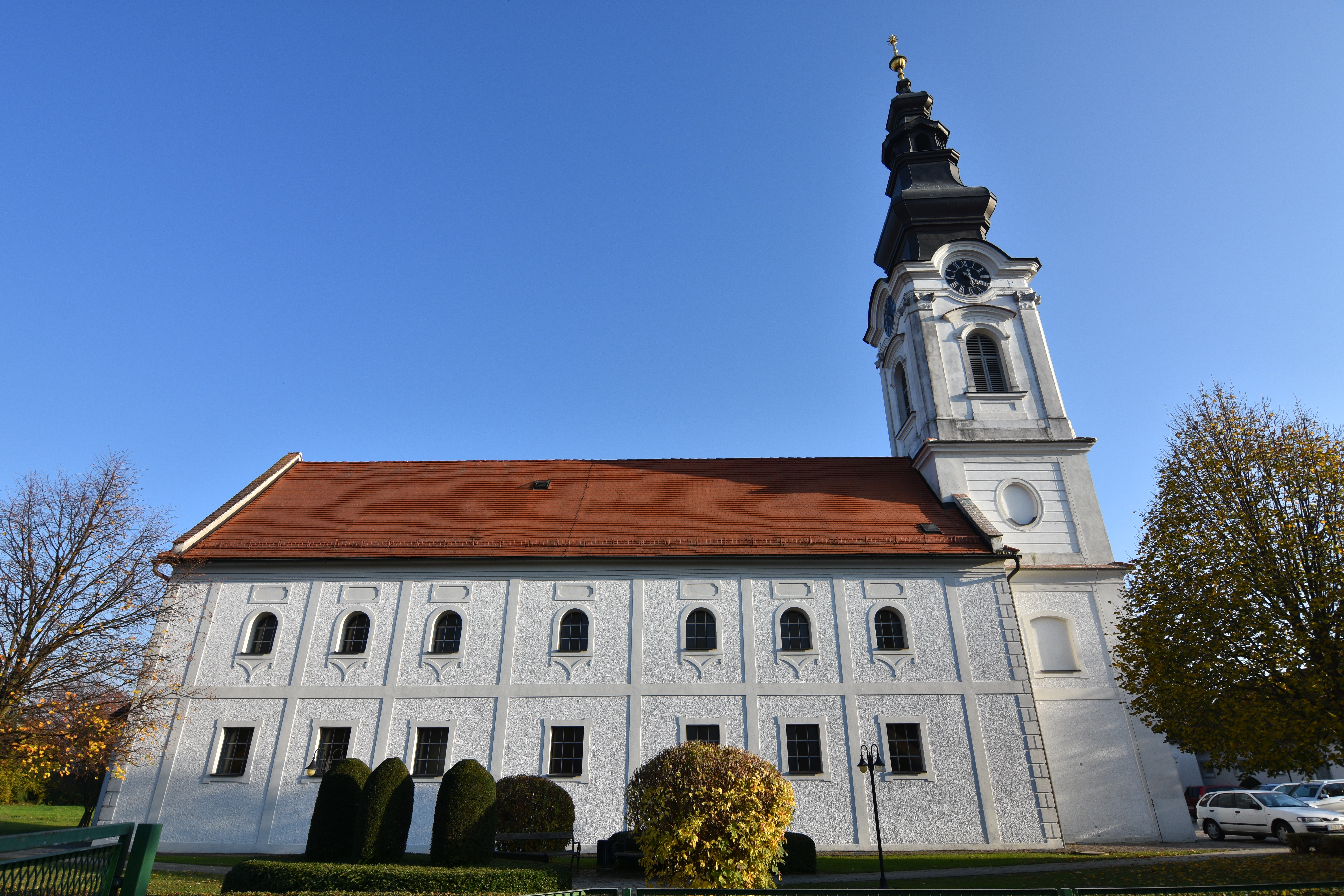 Oberwart Evangelische Pfarrkirche HB